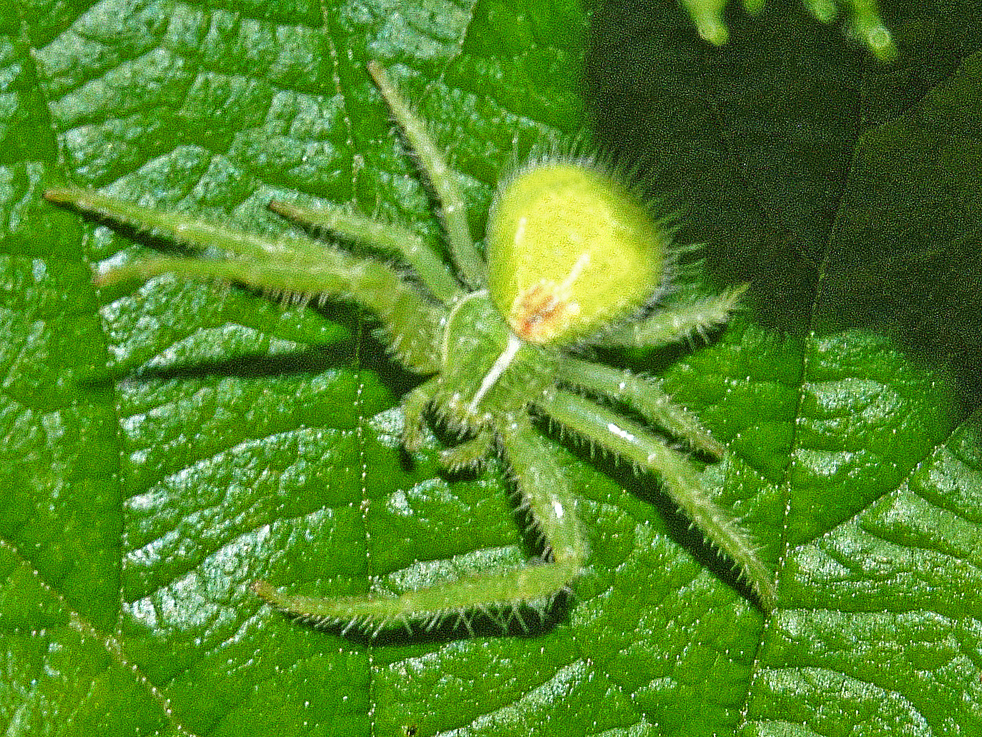 Heriaeus hirtus. Male. Alessandria. Italy